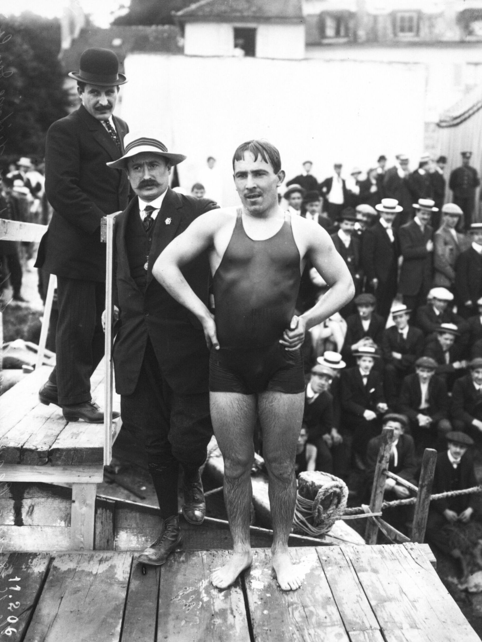 Picture of Frank Beaurepaire